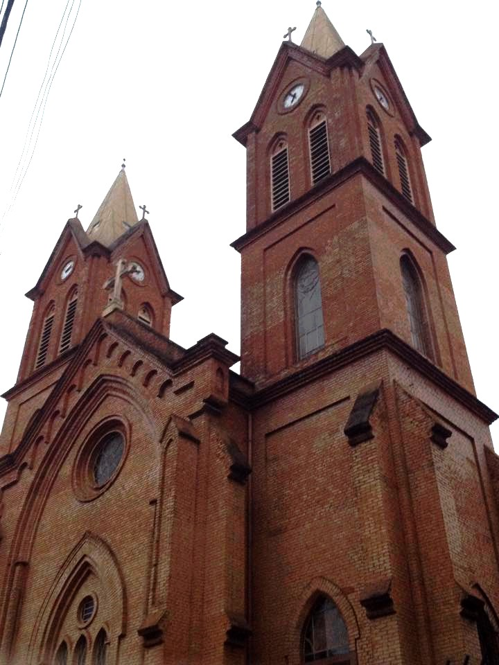 lapa são paulo